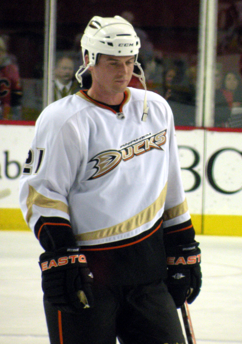 Anaheim Ducks defenceman Sheldon Brookbank prior to a National Hockey League game against the Calgary Flames.